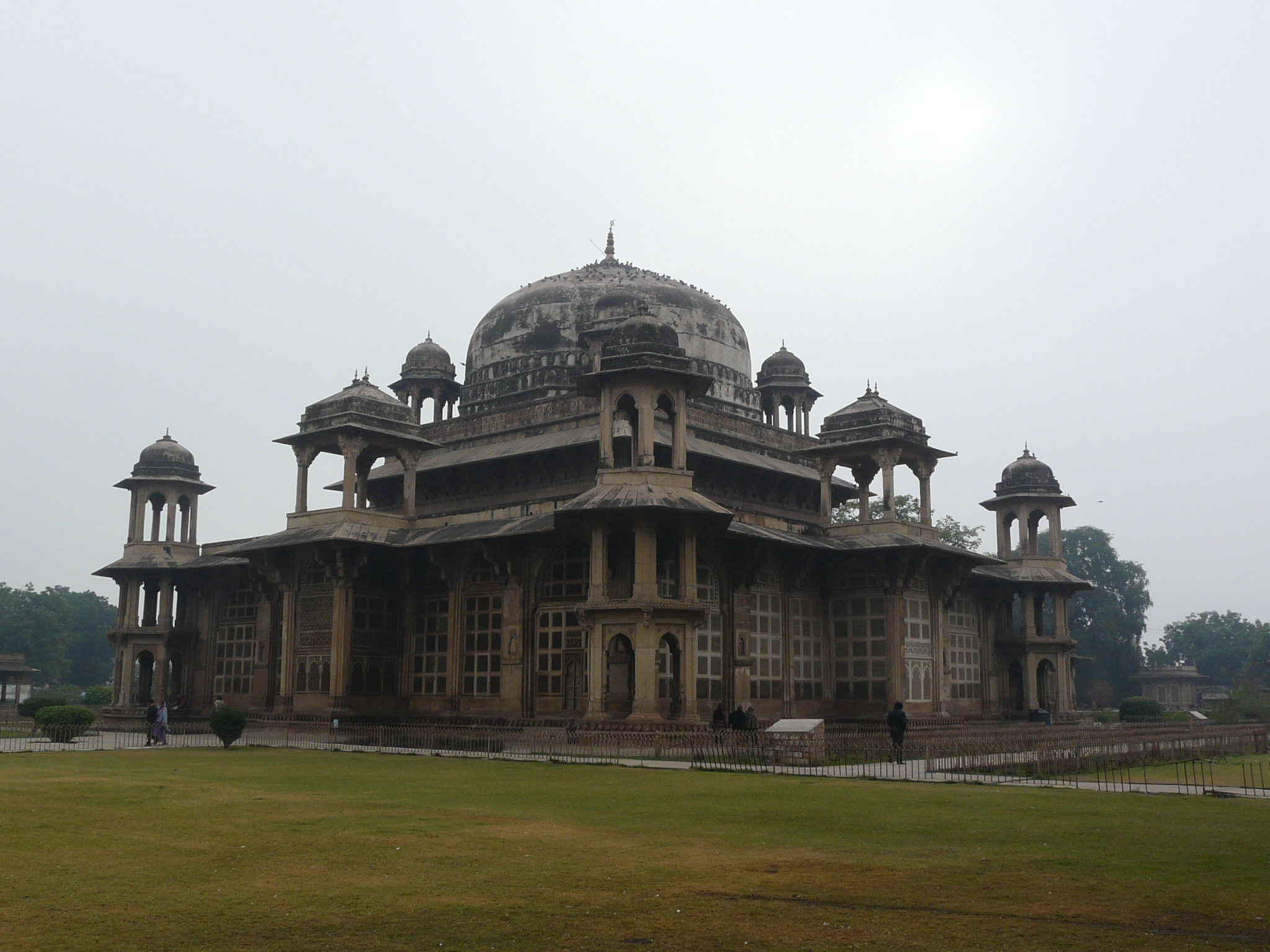 Tomb of Muhammad Ghaus Tomb of Muhammad Ghaus, Gwalior, Madhya Pradesh, India